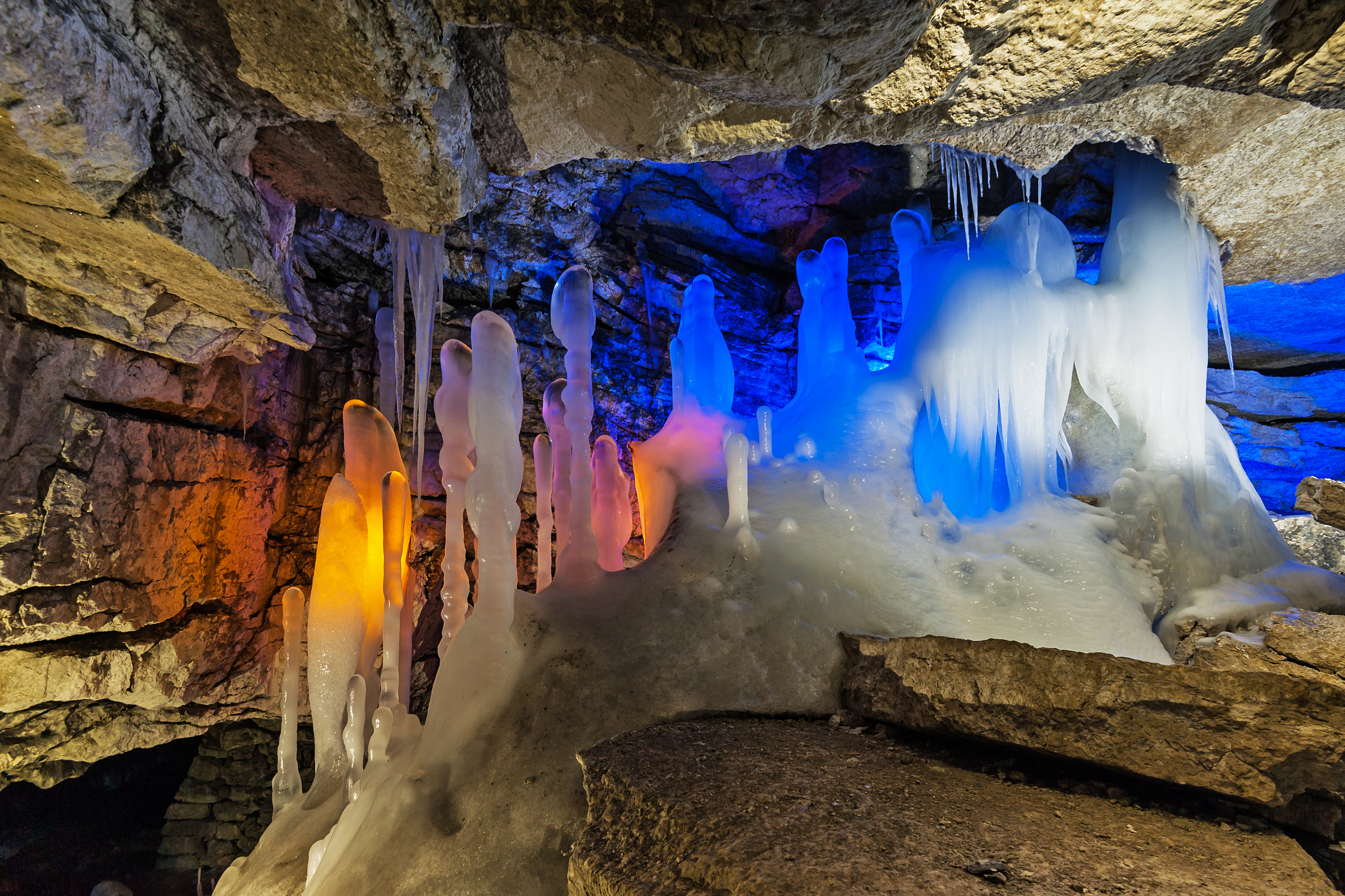 Kungur Ice Cave, Perm Krai, Russia